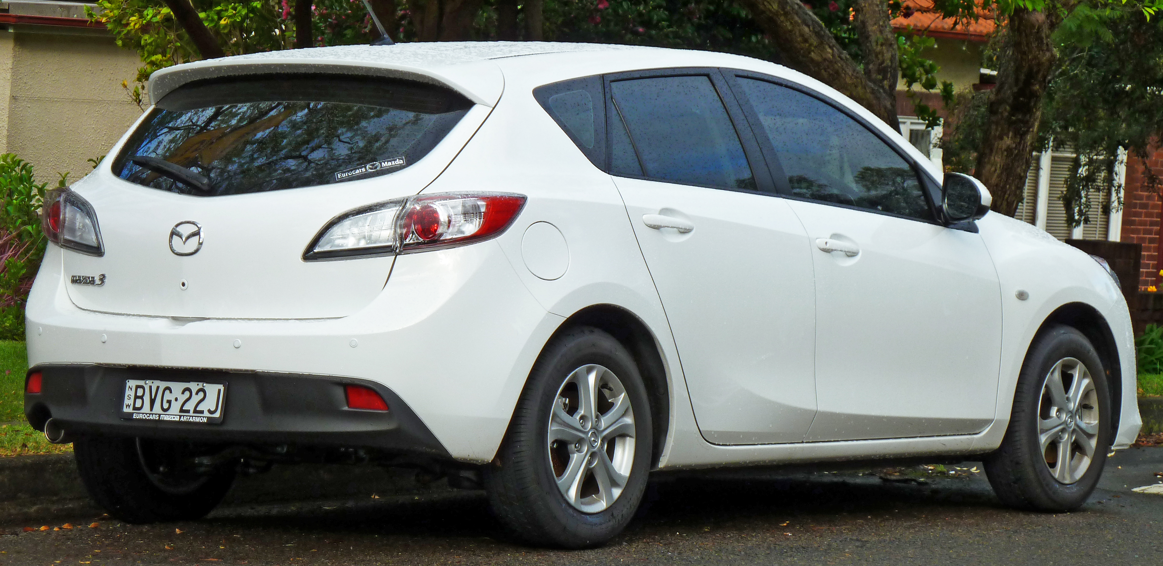 2011 Mazda3 (BL MY10) Maxx hatchback. Photographed in Lindfield, New South Wales, Australia.